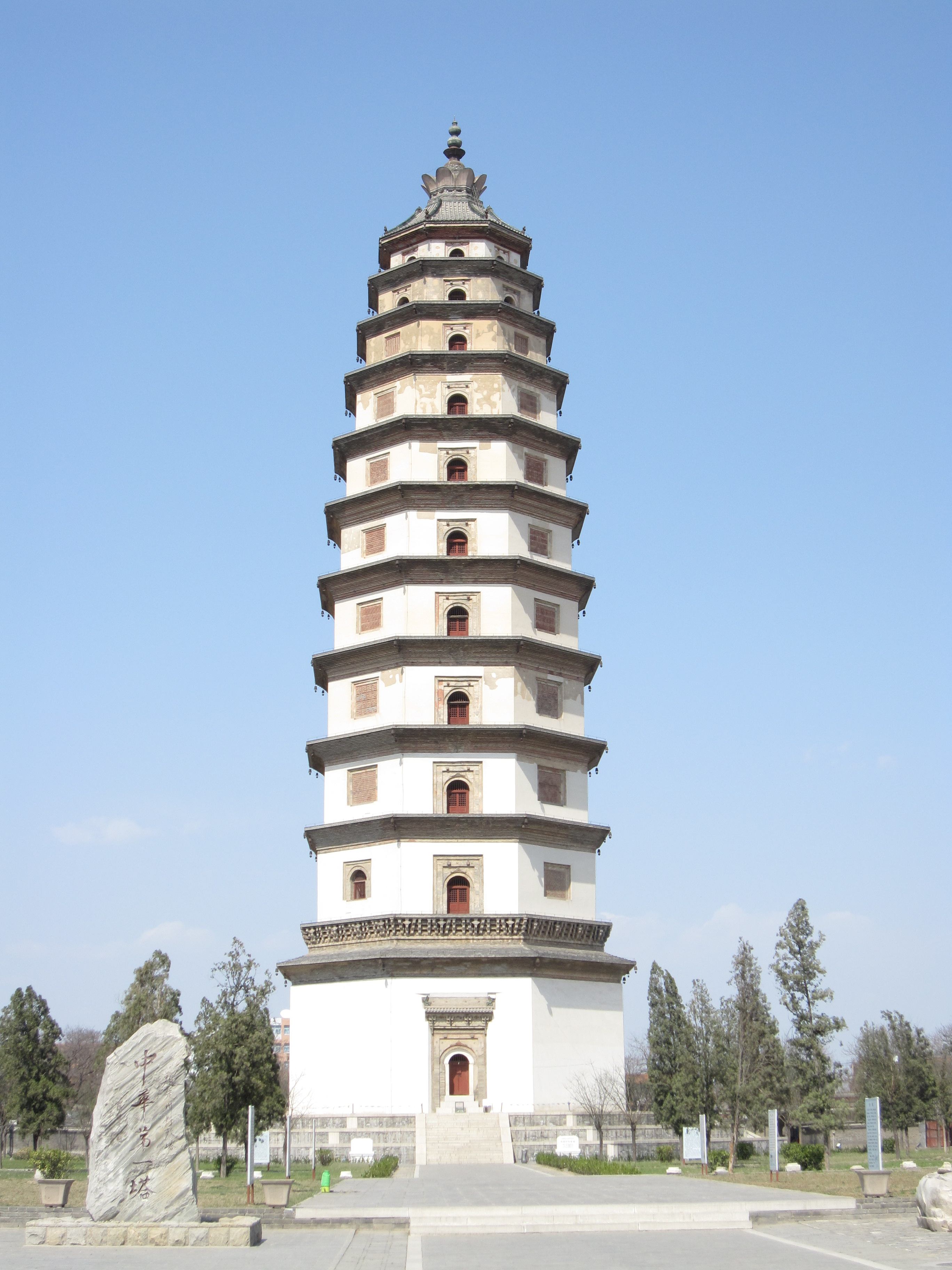 The Liaodi Pagoda of Kaiyuan Temple in Dingzhou, China